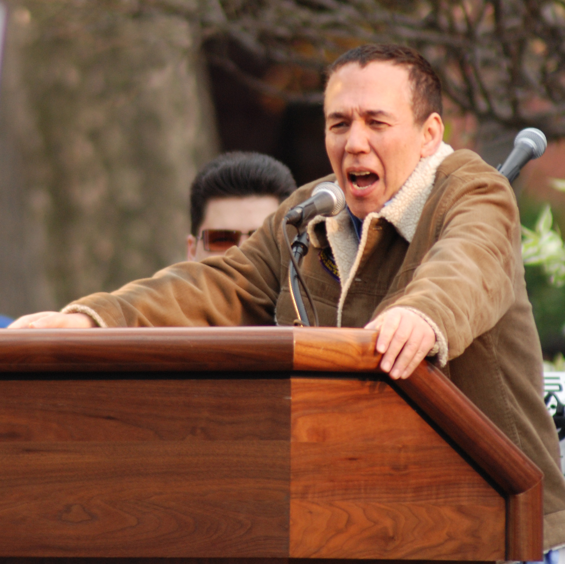 Gilbert Gottfried at the Writer's Guild of America East Solidarity Rally in Washington Square (2007)